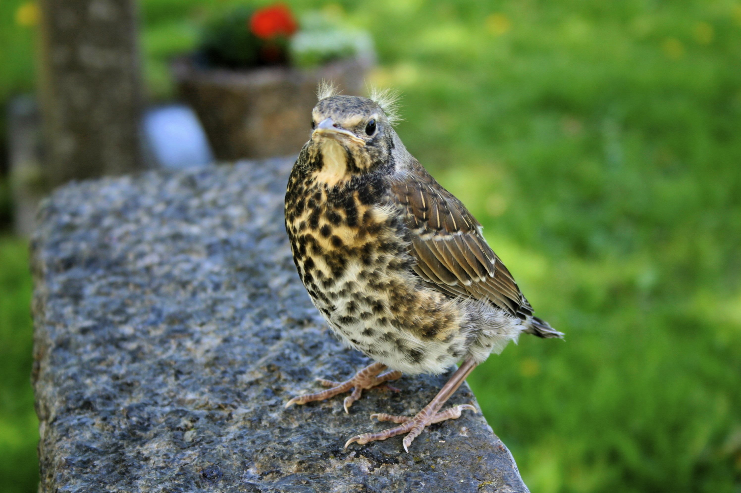 A recently fledged Fieldfare in Norway.